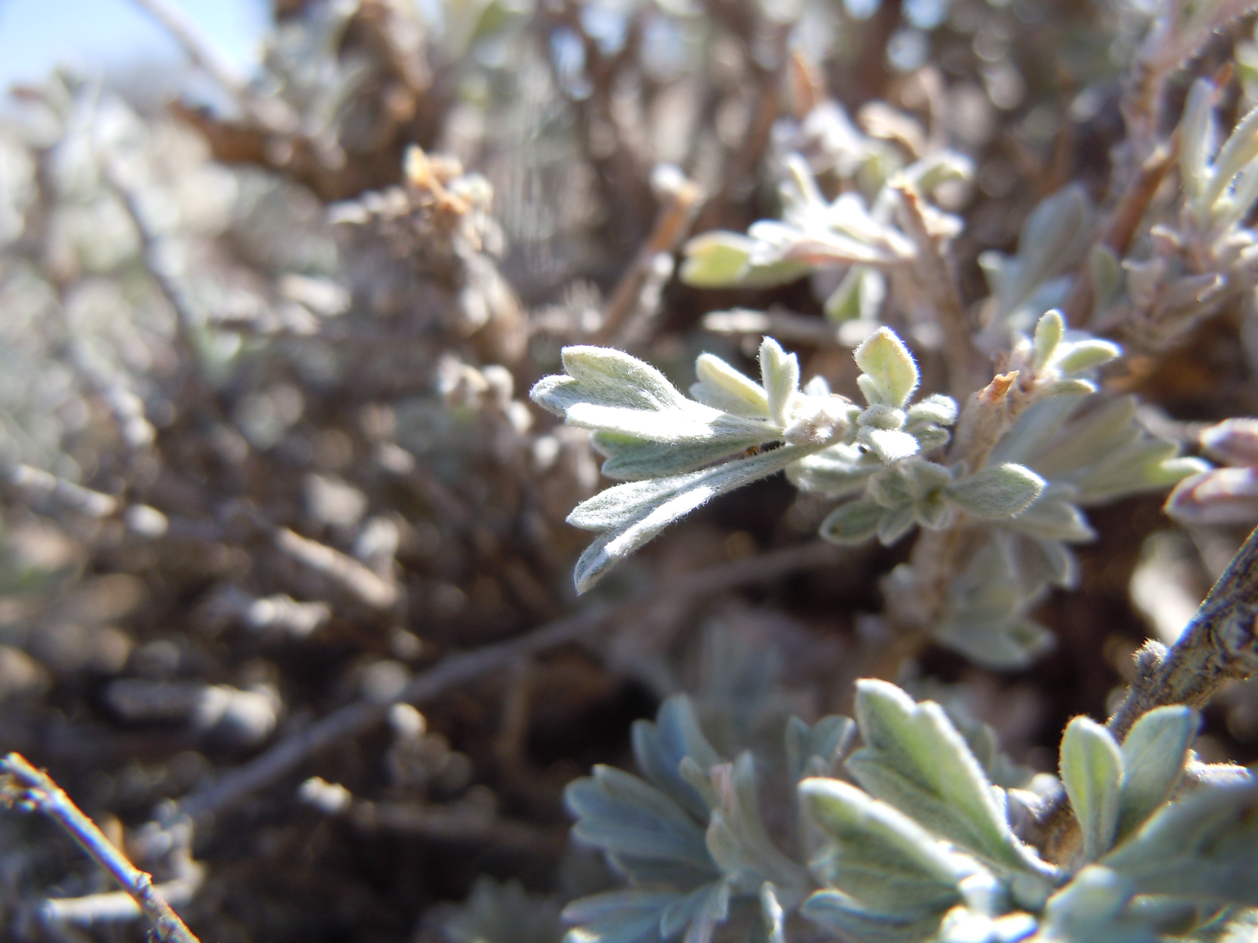 The leaves are velvety hairy similar to the hairs covering the leaves of Artemisia ludoviciana and the three tips of each leaf are broad so as to often overlap each other along the lateral margins.